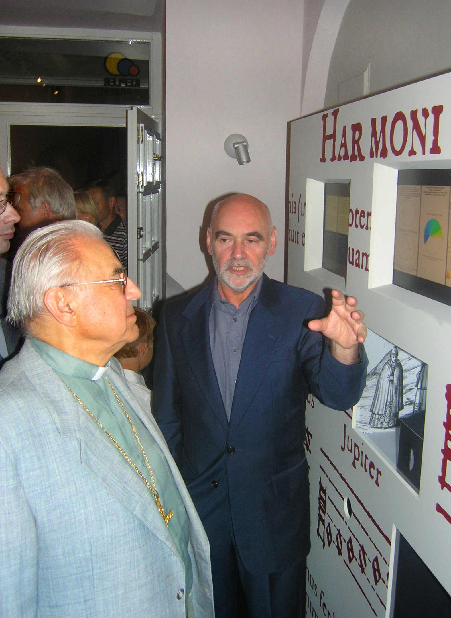 Miloslav Vlk, head of the Czech Catholic, and Vojtěch Sedláček during the opening of Kepler museum, Prague